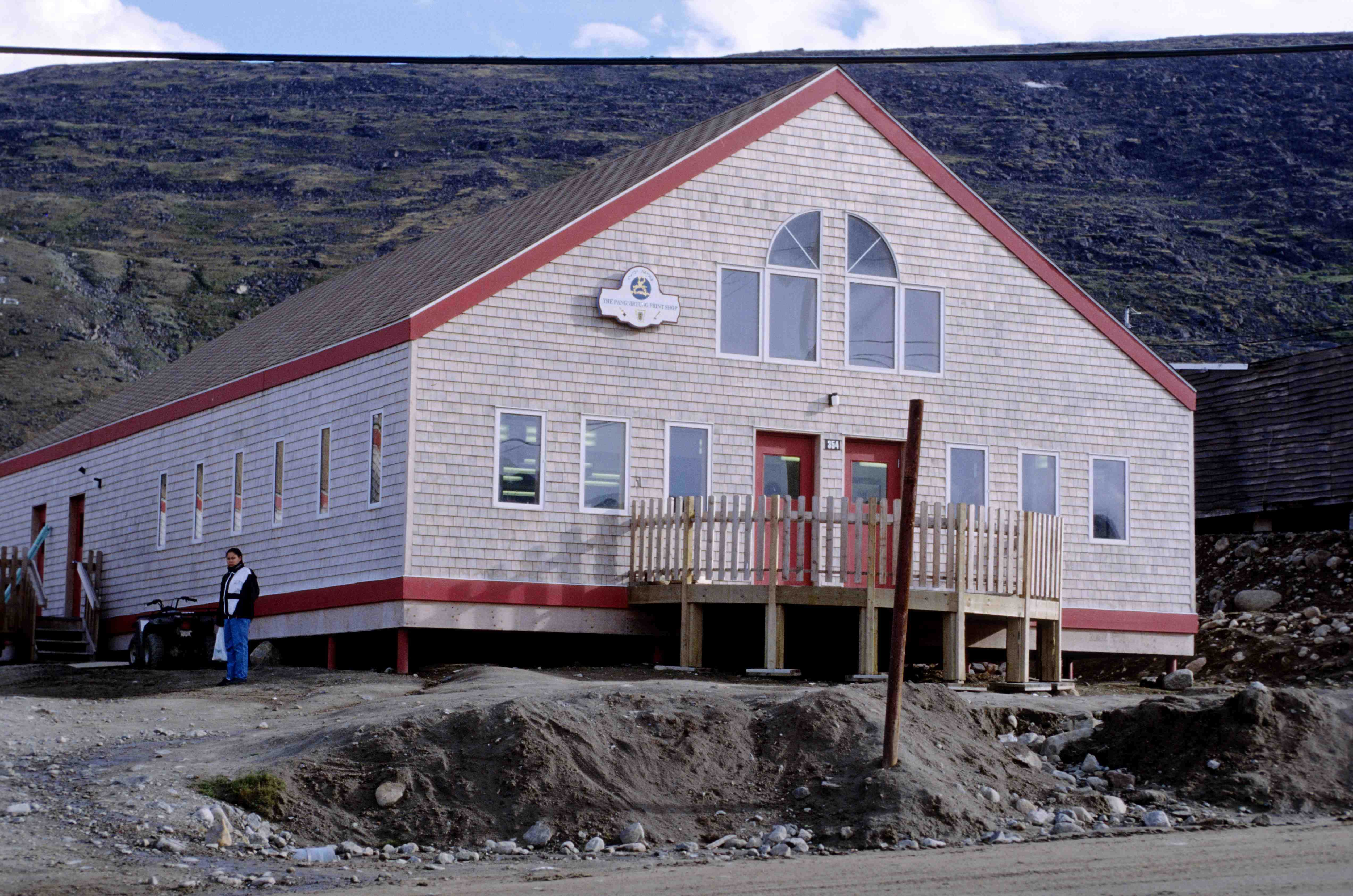 Pangnirtung Printshop (Inuit Art)